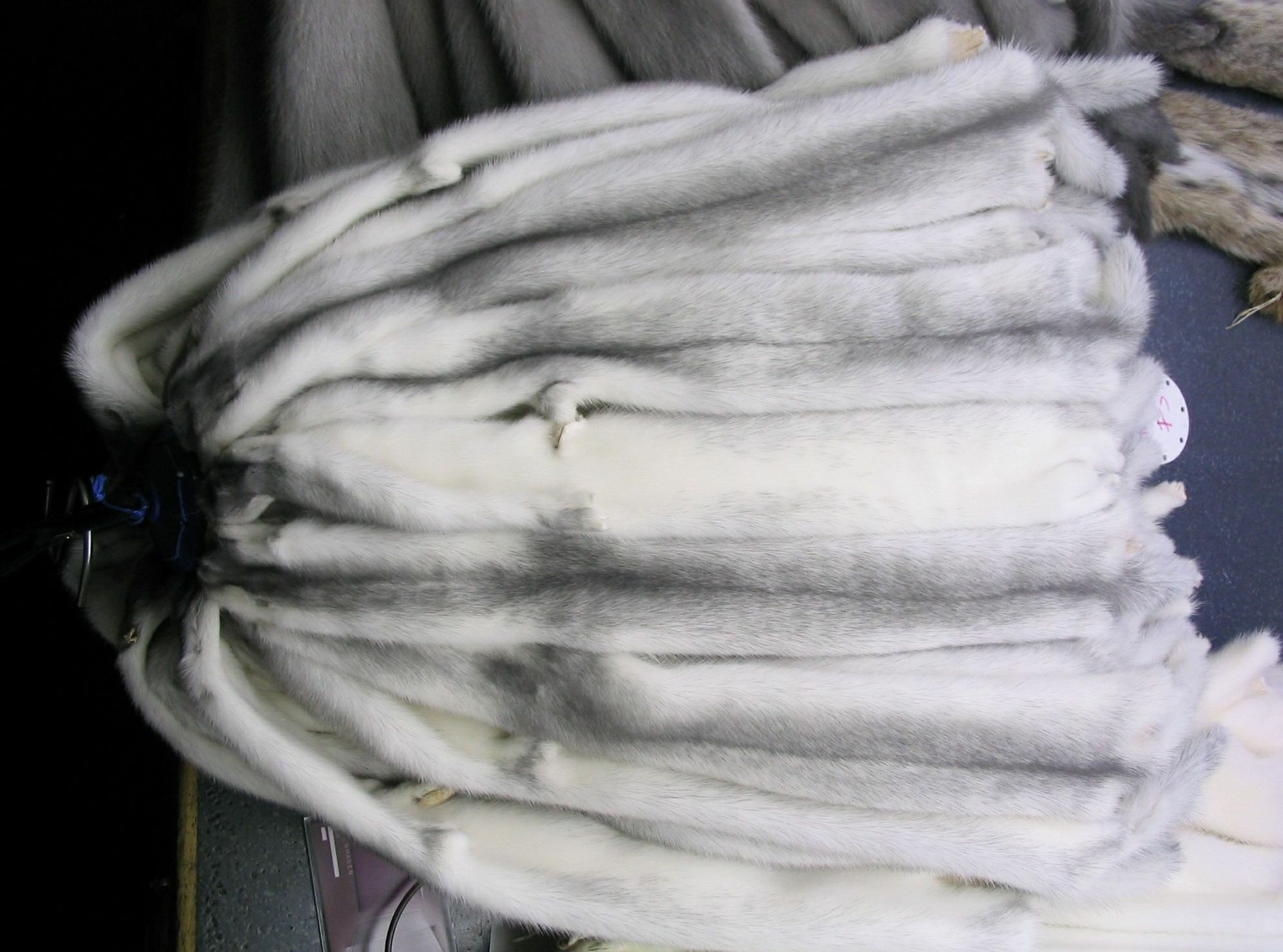 Greycross mink fur skins